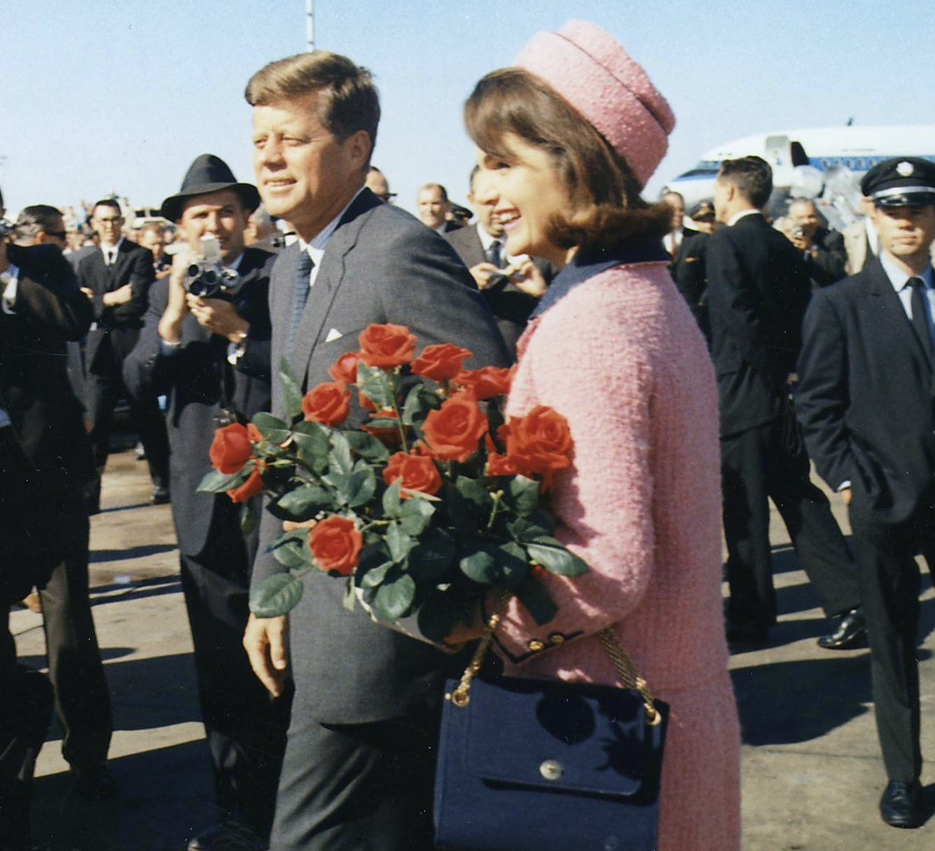 President John F. Kennedy and Jacqueline Kennedy arrive at Love Field, Dallas, Texas. Kennedy was assassinated later in the day.